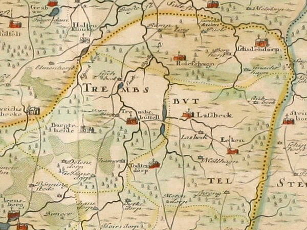 Old engraved map of Amt Tremsbüttel in the district of Stormarn near Hamburg in Germany, 1652. (Cropped image detail, enhanced brightness and contrast)